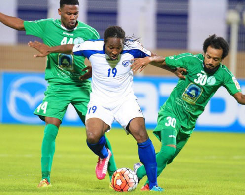 Pan Pierre Koulibaly in a match against Al Nahda Club. 23 January 2016 Al-Buraimi Sports Complex, Al-Buraimi, Oman Photographer email id